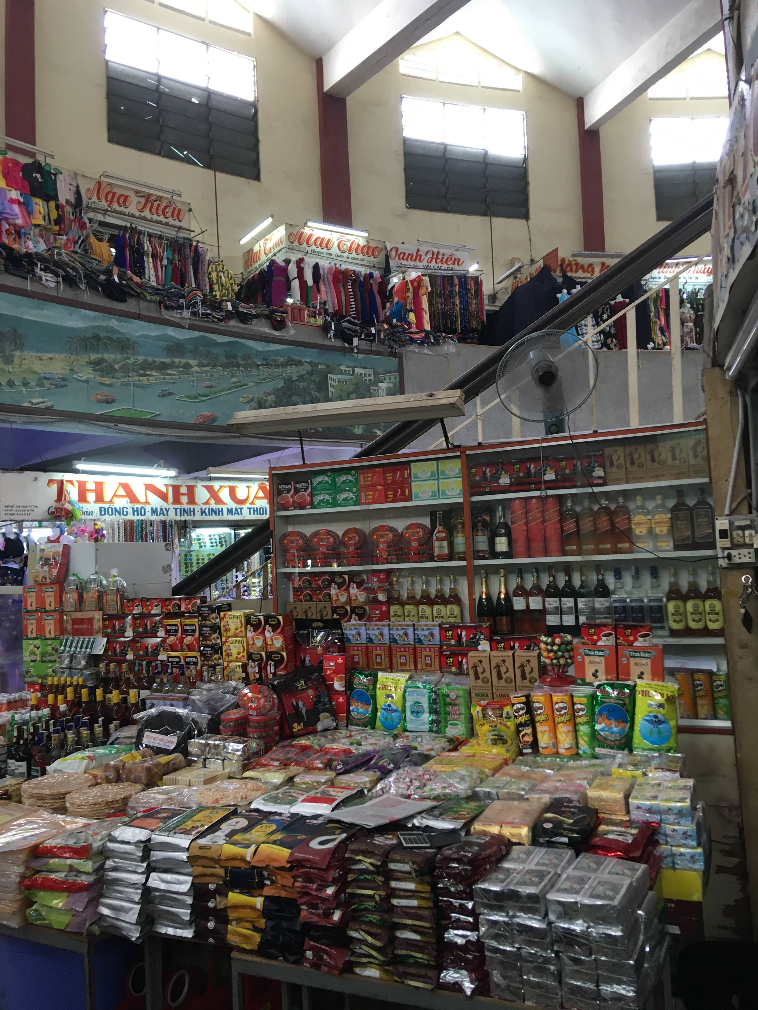 The Dam Market in Nha Trang, Vietnam.